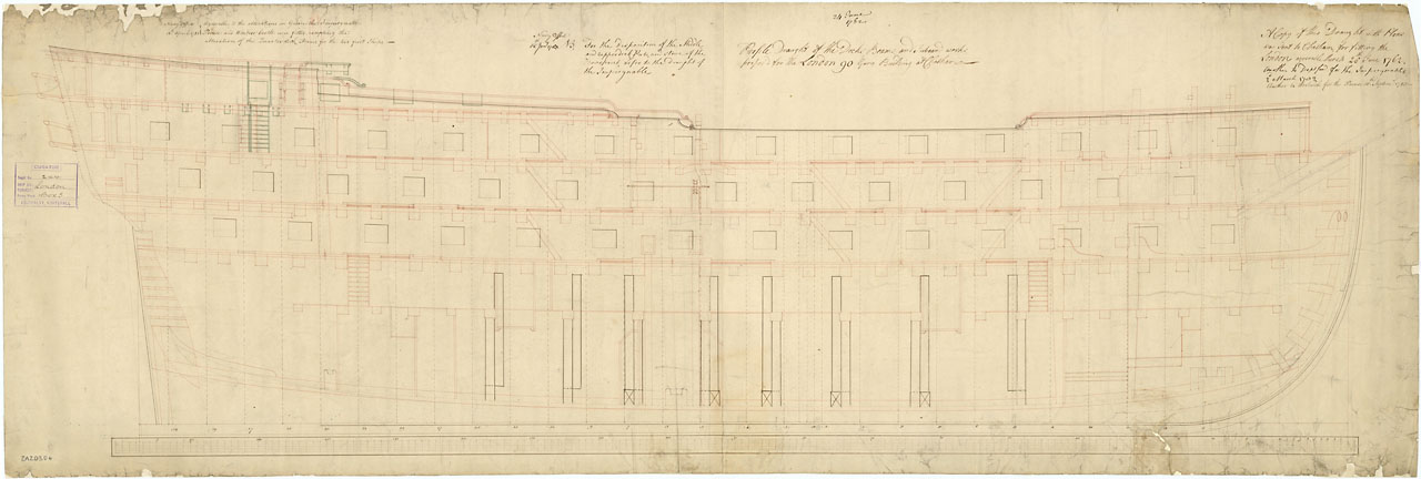 Чертёж корпуса линейного корабля London, первого в своем классе. Зелеными чернилами отмечены изменения, сделанные в более поздних кораблях класса, в частности добавлены по 4 орудийных порта на шканцах.